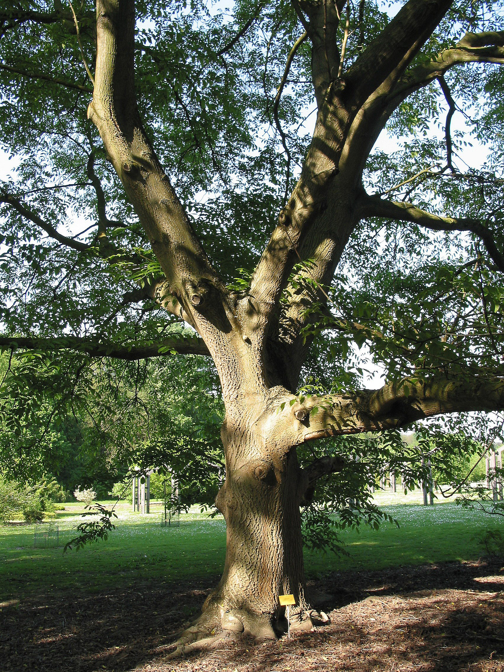 Japanese Walnut .